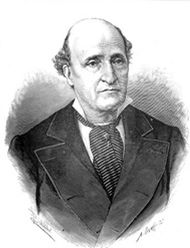 Spanish Actor José Valero